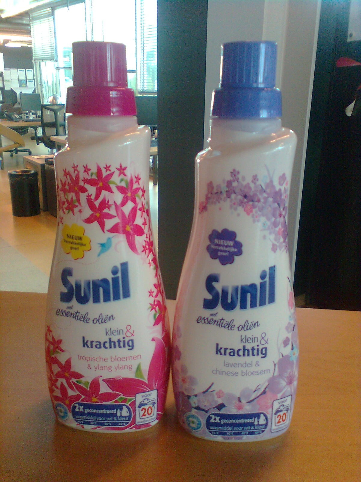 The Sunil in its current packaging